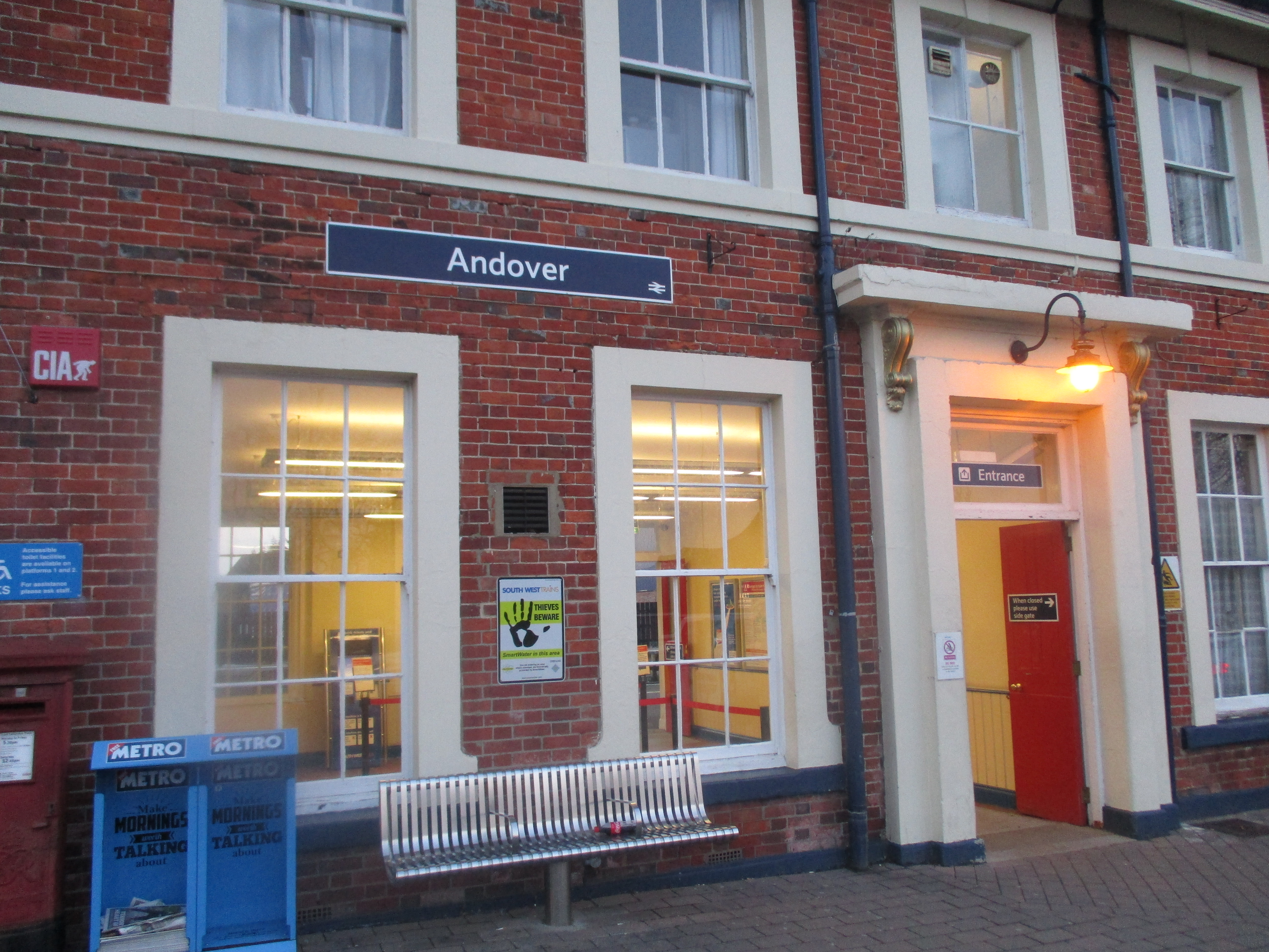 Andover station Entrance